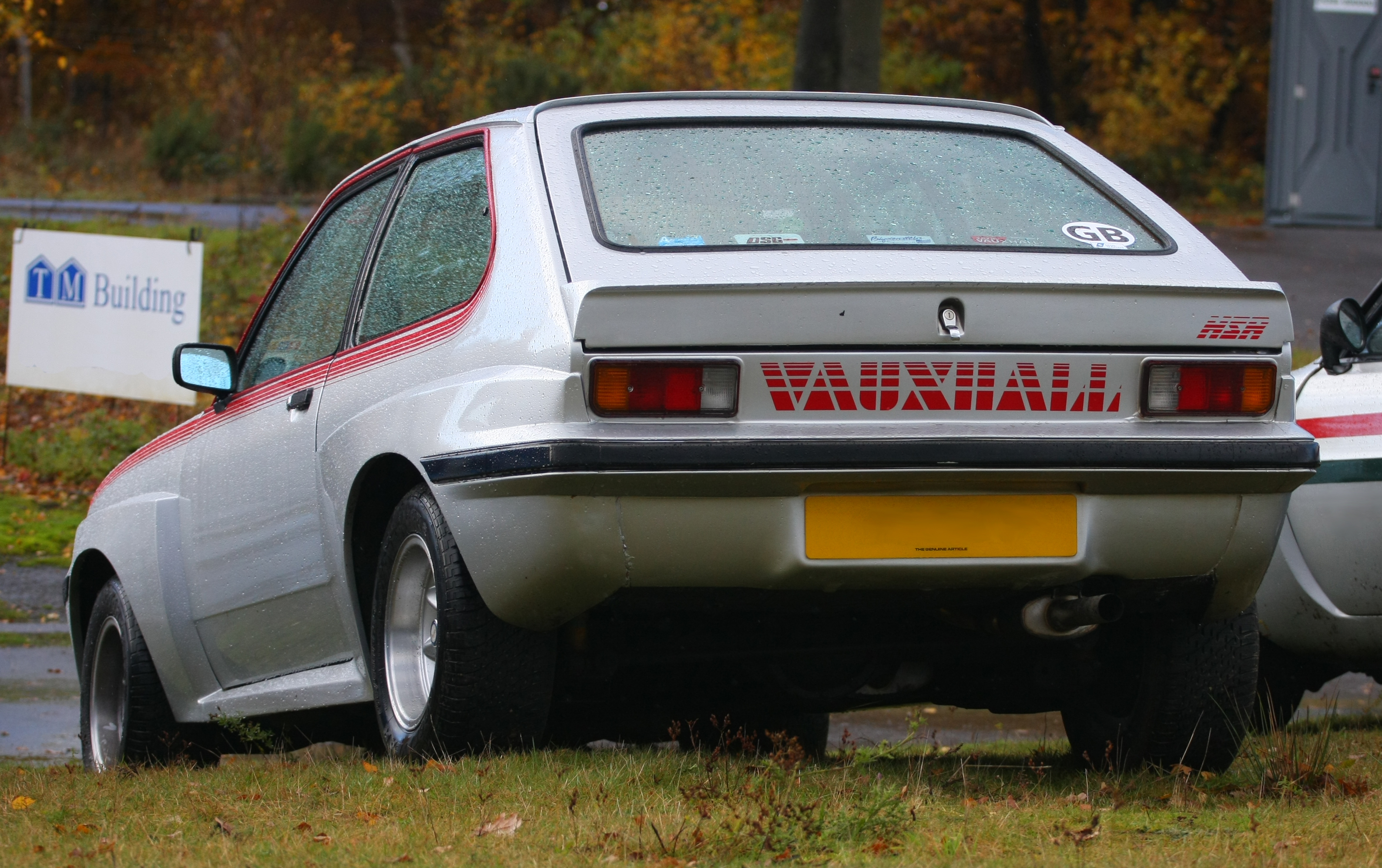 1980 Vauxhall Chevette HSR at the 2008 Tempest Rally, Aldershot, UK